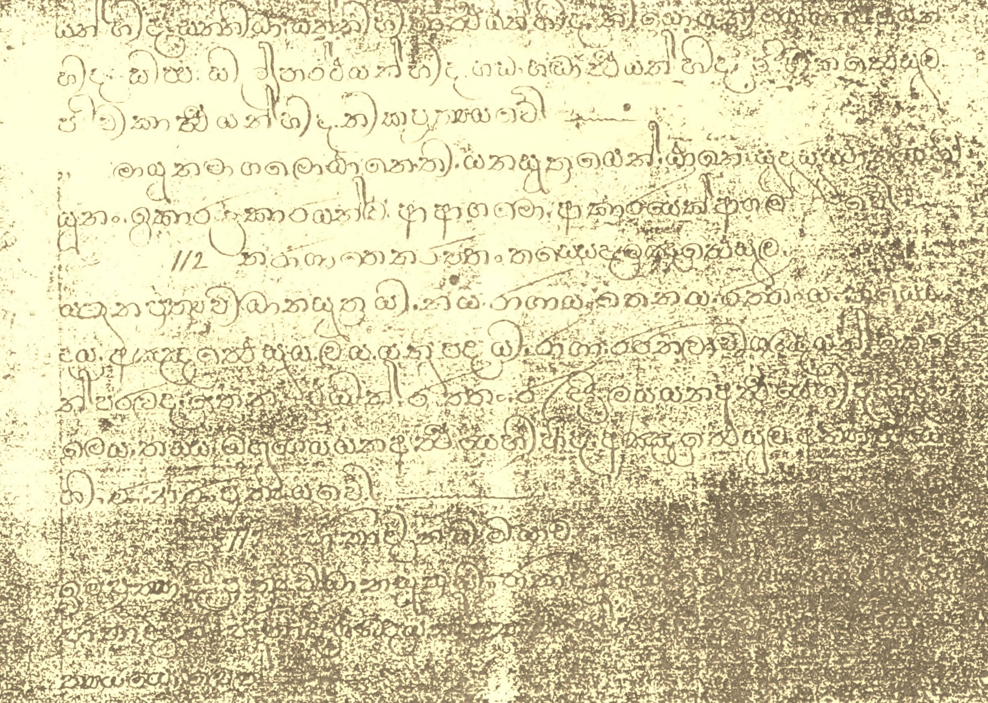 Ola Scriptures and Art Works of Venerable Migettuwatte Gunananda Thera at Dipaduttamarama Library